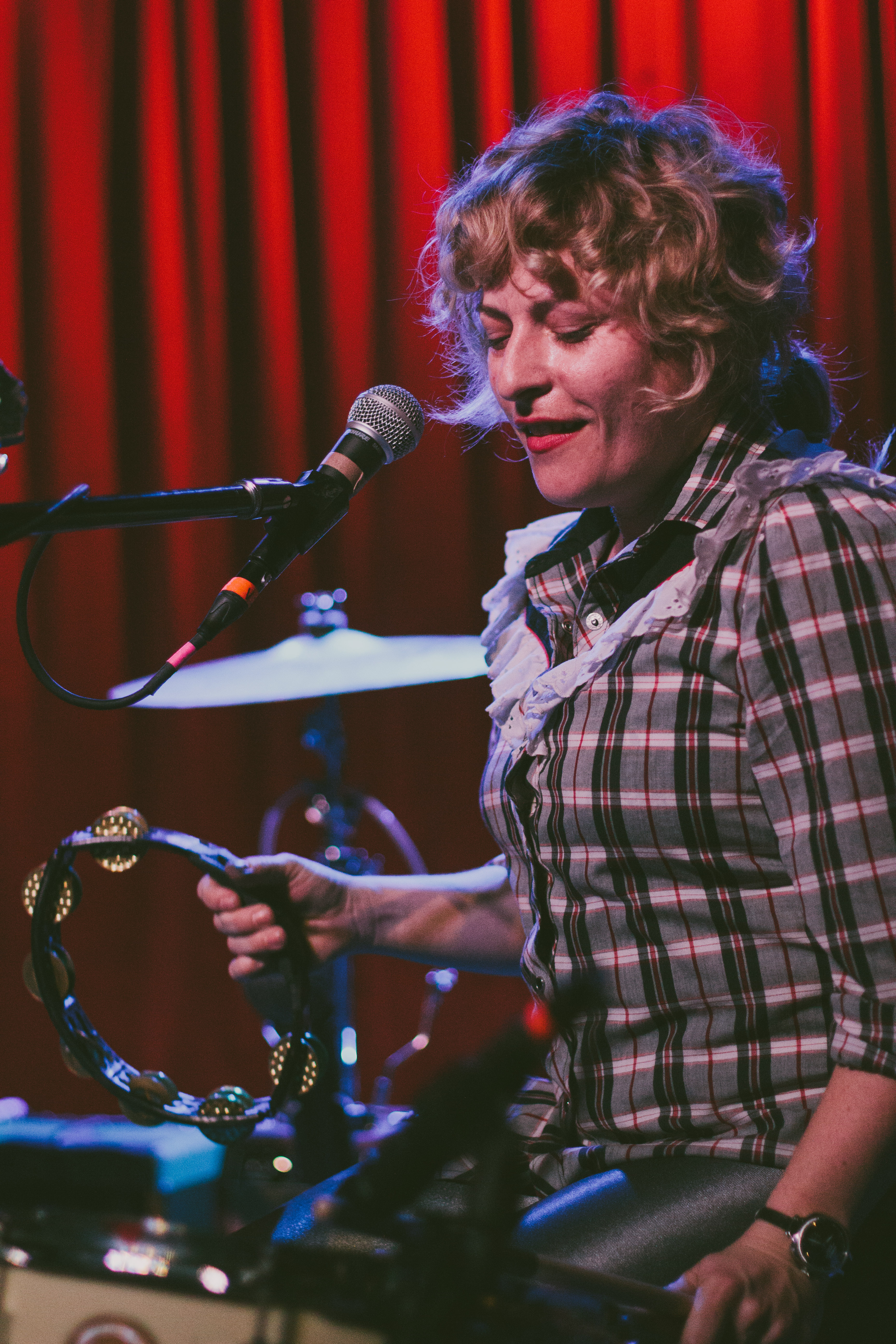 Cary Ann Hearst in a concert